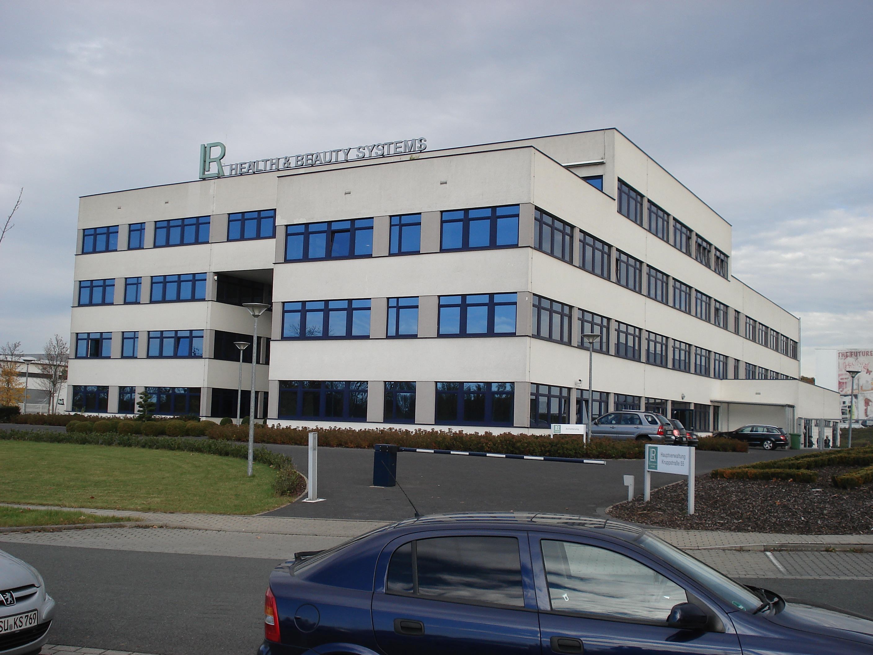 Building of LR Health & Beauty Systems in Ahlen (Germany)